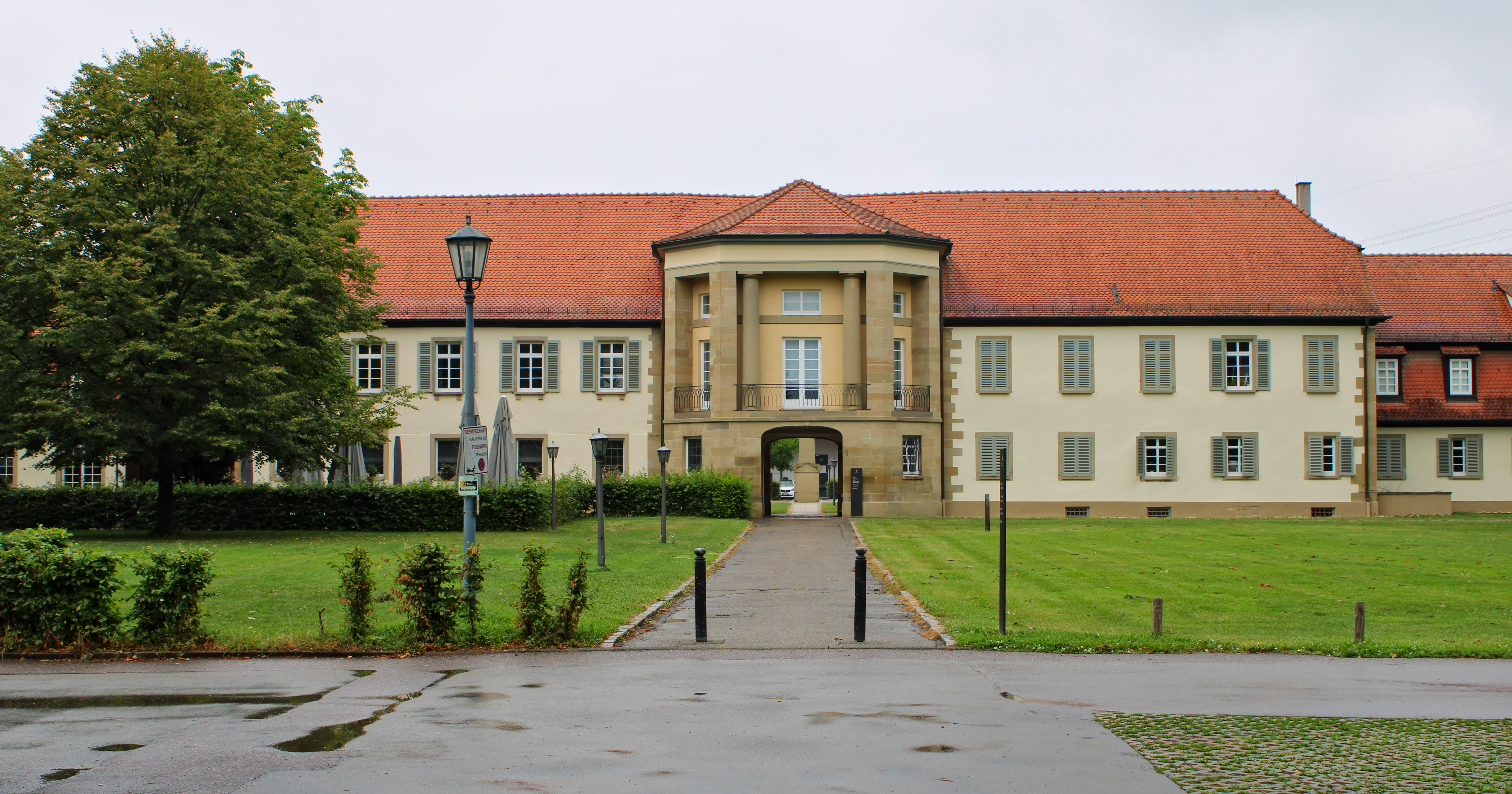 Hotel at Schloss Monrepos 2019